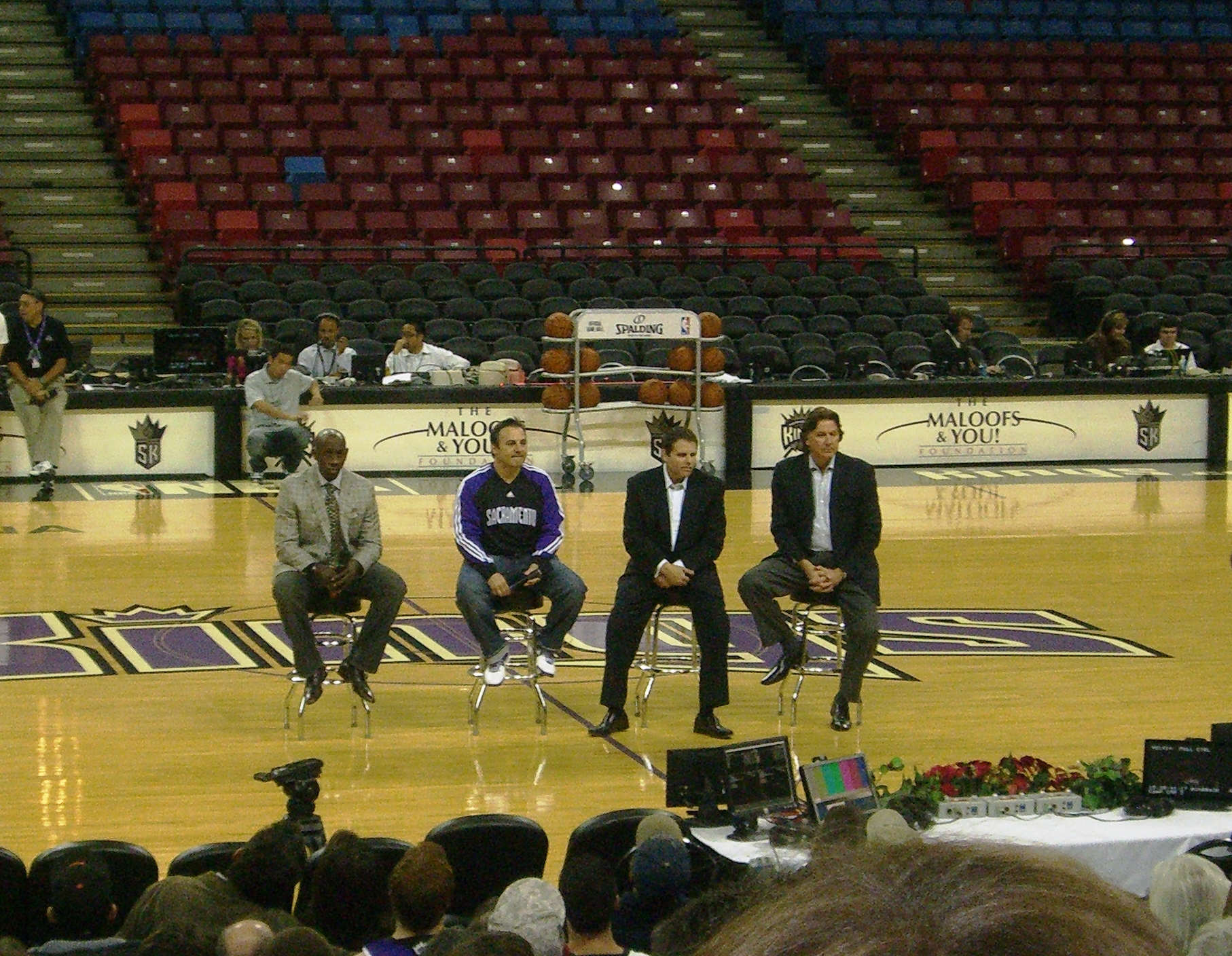 From left, Bobby Jackson, Geoff Petrie and the Maloof Brothers